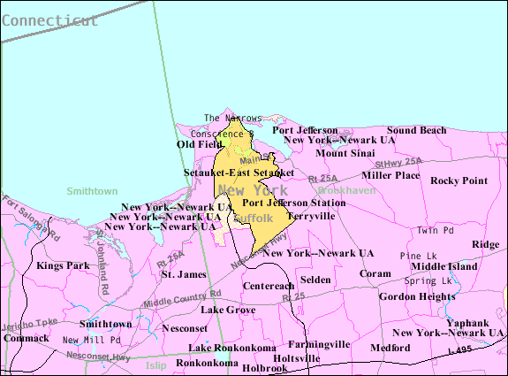 U.S. Census 2000 reference map for Setauket